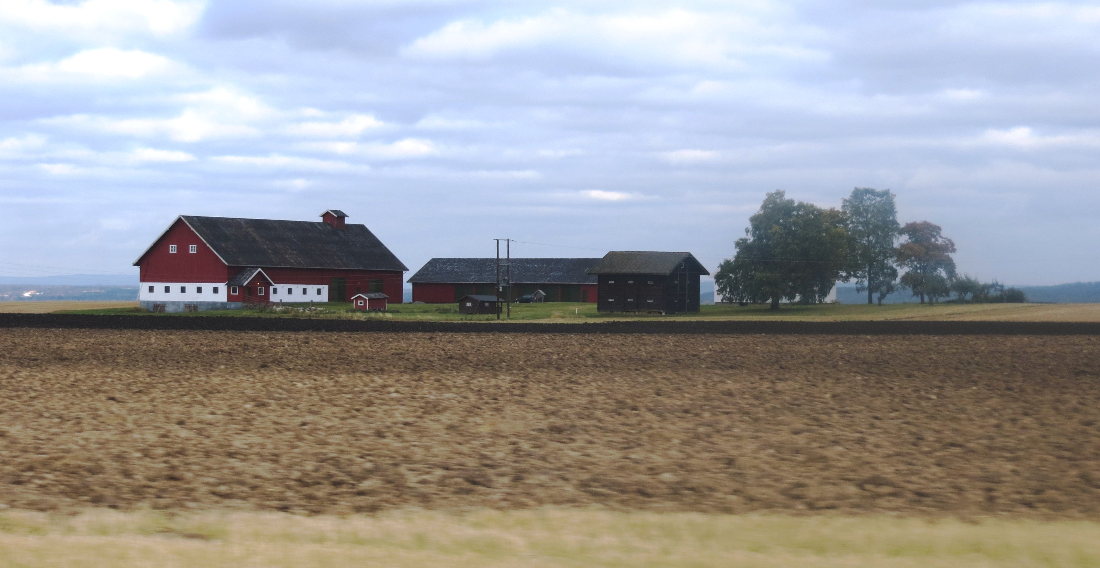 Ske farm in Stange municipality, Southwest of Hamar, Norway.